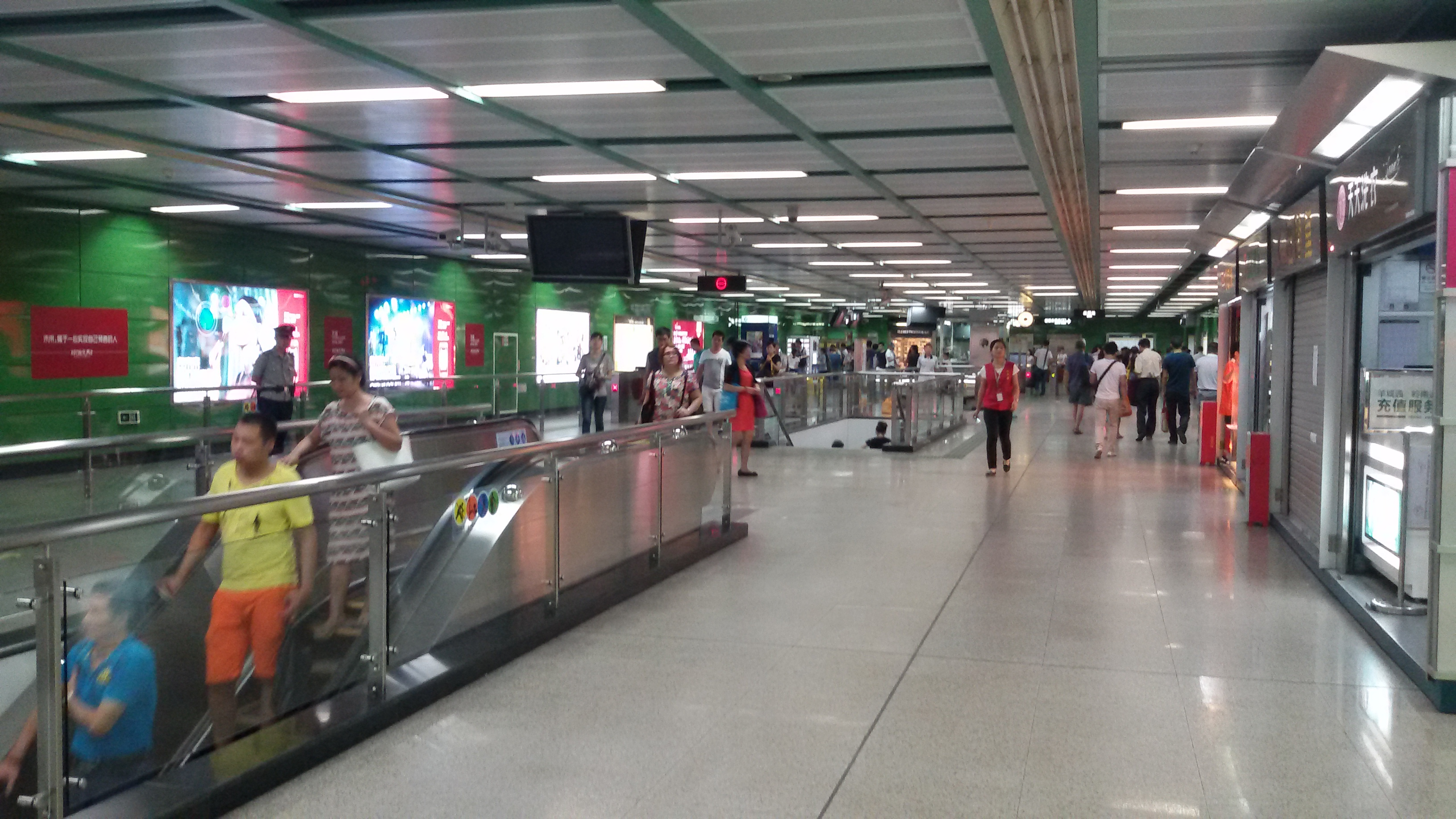 Station Concourse for Sun Yat-sen University Station, Guangzhou Metro.